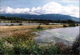 Prado Flood Control Basin wetlands, Santa Ana River, near Riverside, CA